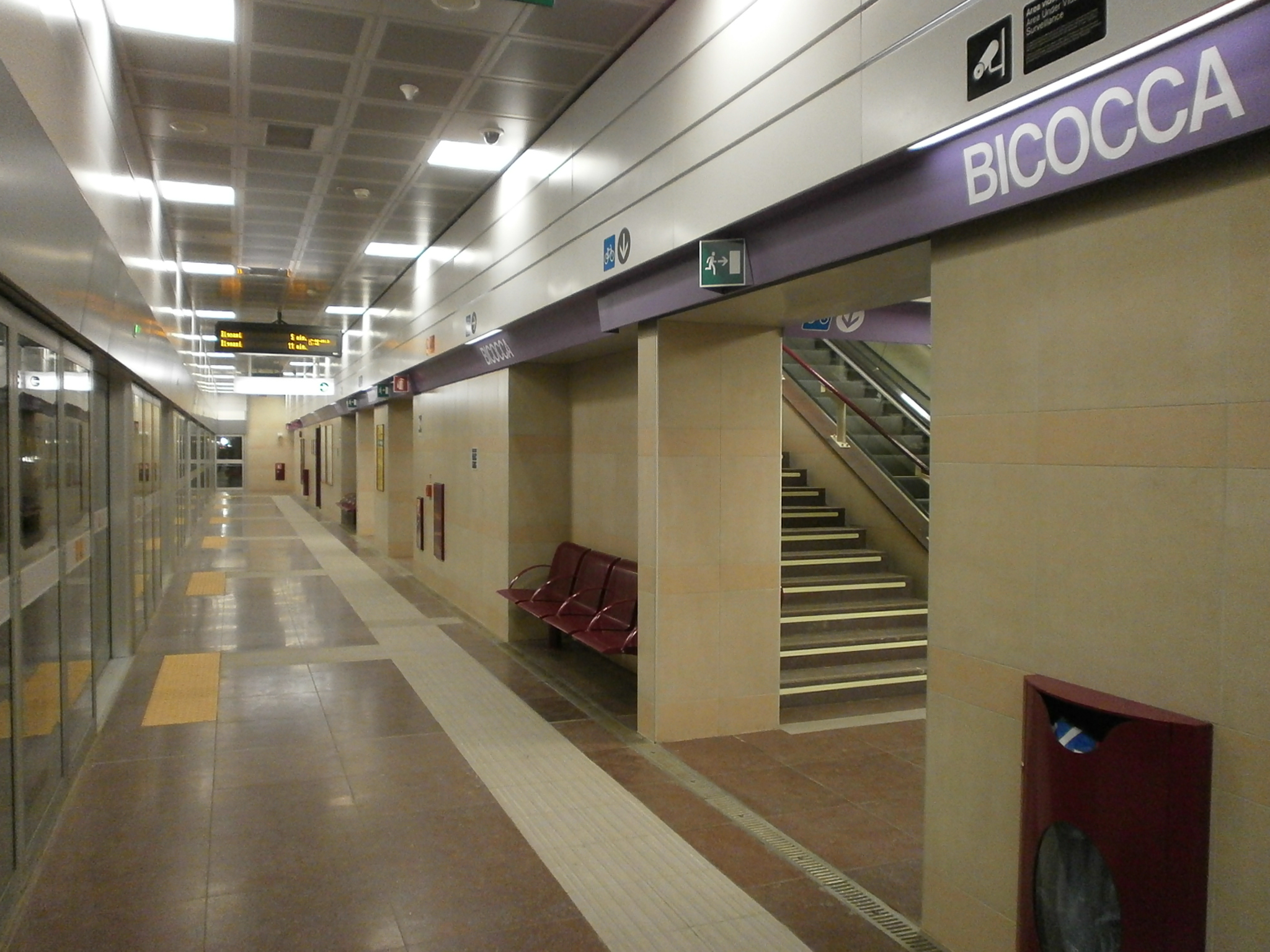 Linea M5 lilla - Milano - stazione bicocca